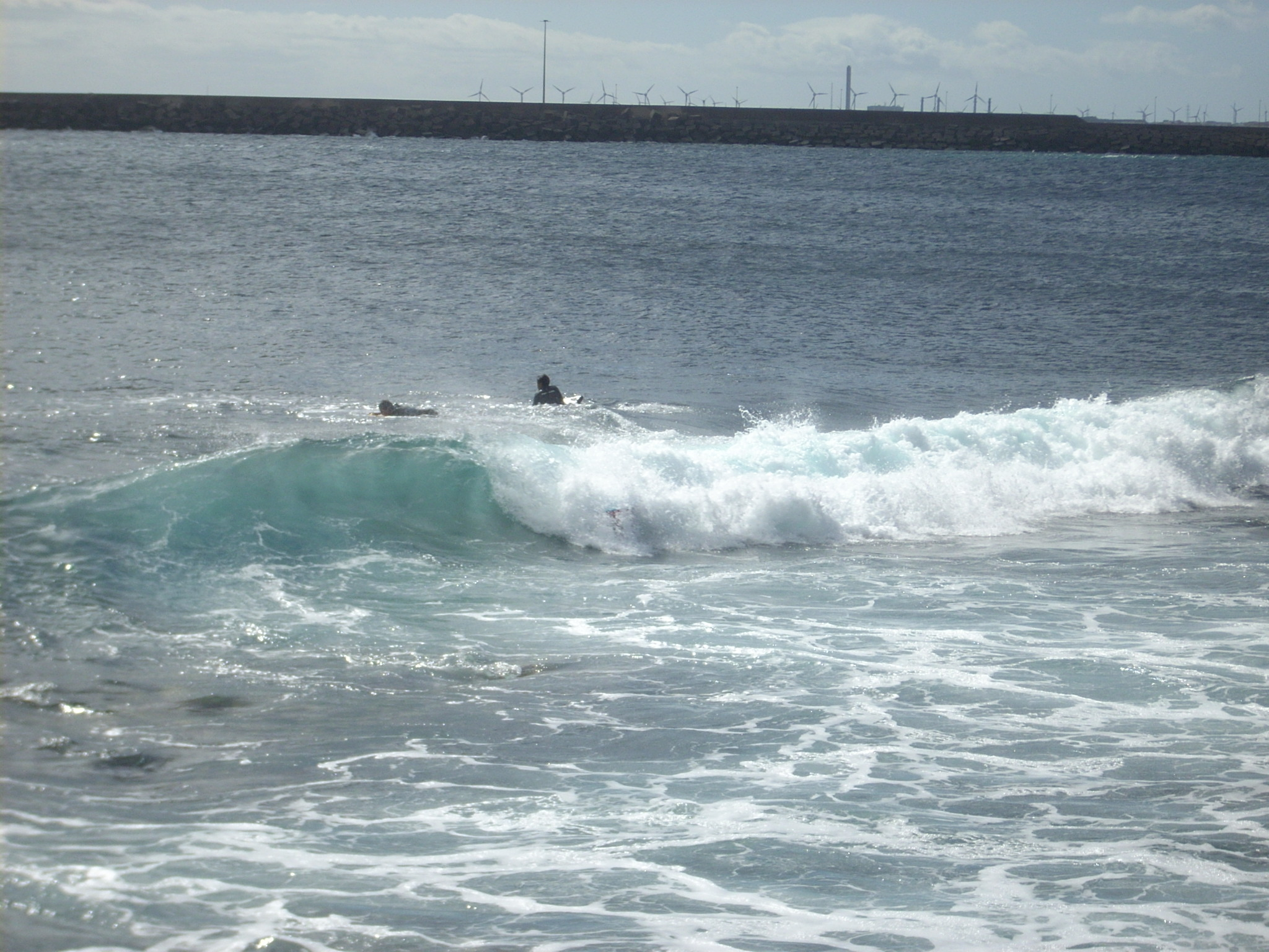 Arinaga_surf.